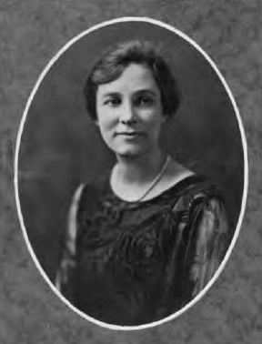 Mrs. E.E. Brownell, 1922 President of the American Association of University Women, S.F. Bay Branch, Who's who among the women of California